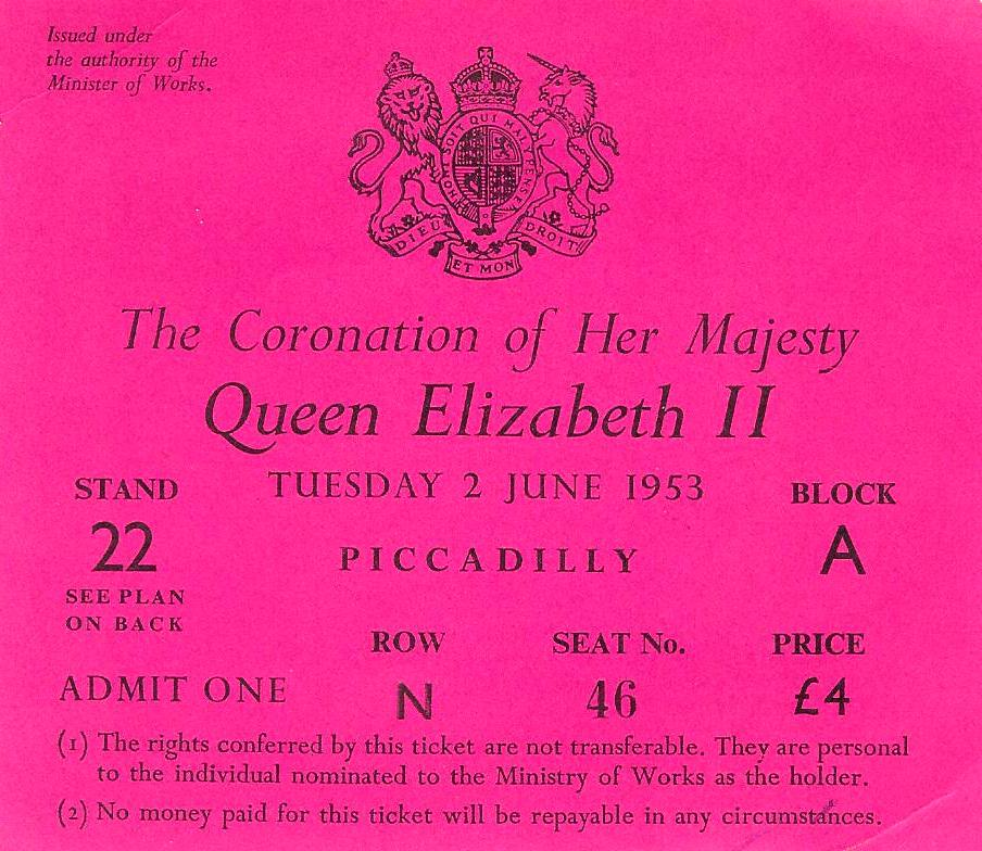 Scan by the contributor of the contributor's ticket to view the Coronation of Queen Elizabeth II.